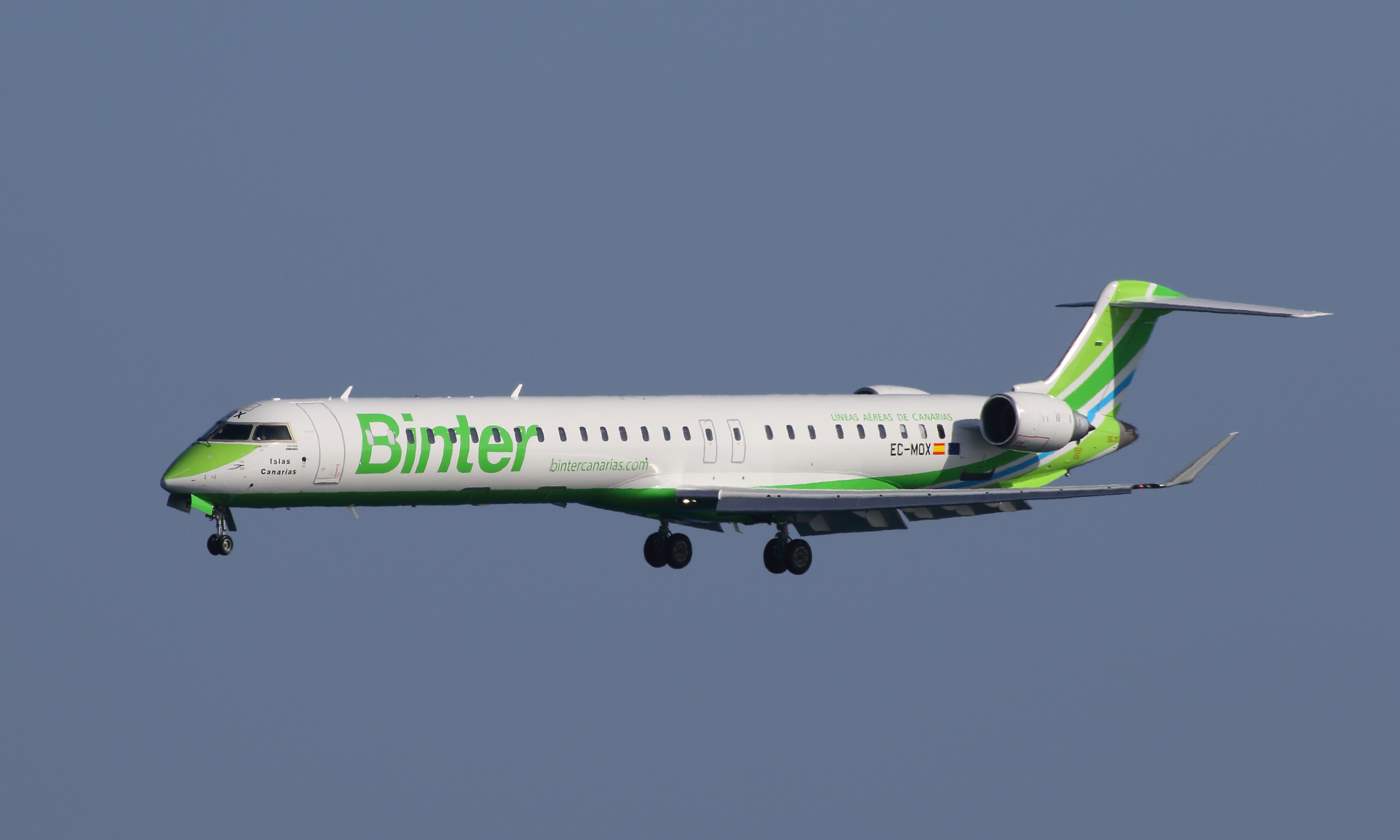 Binter Canarias Bombardier CRJ-1000 EC-MOX arrives at Arrecife Airport, Lanzarote, Canary Islands